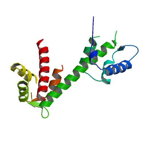 Crystal Structure of Nav1.6 IQ motif in complex with apo-CaM